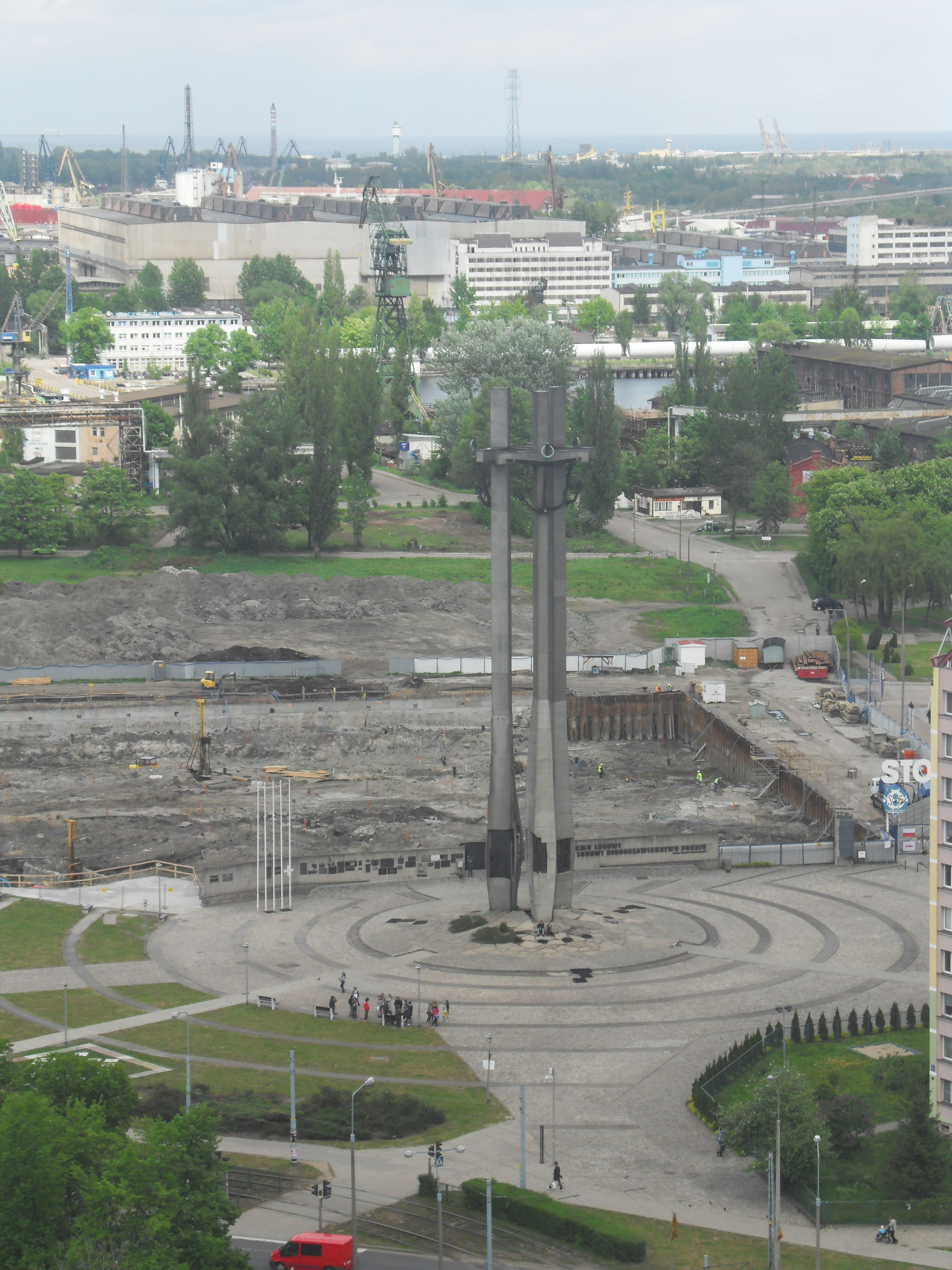 Monument to the Fallen Shipyard Workers of 1970 in Gdańsk (Poland).